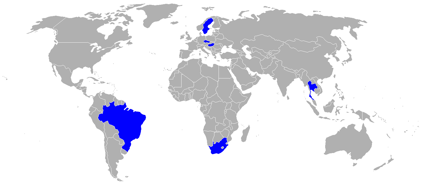 Saab 39 Gripen users worldmap